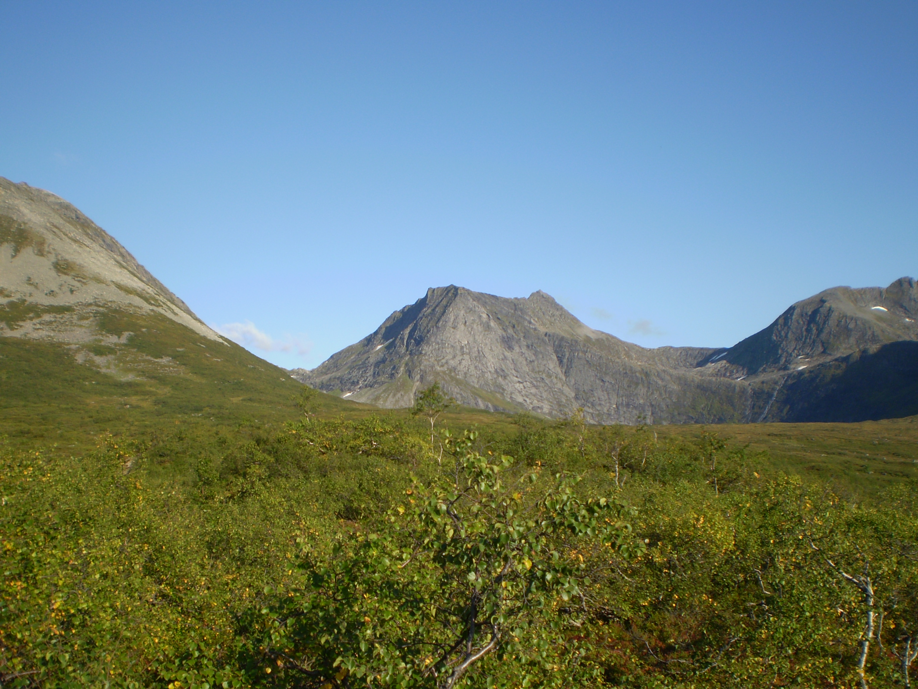 Mountain in Norway